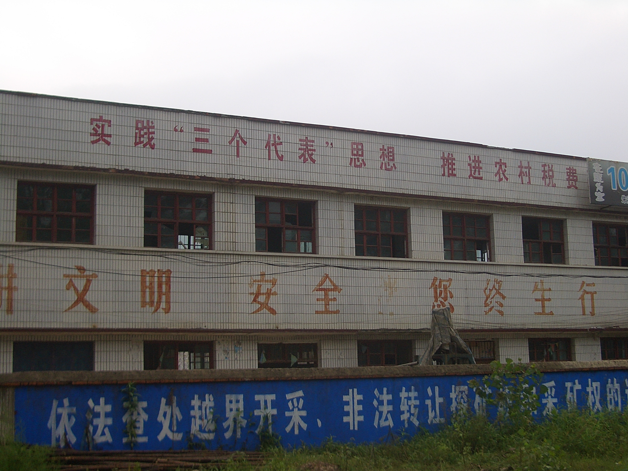 On the north side of Futu, or maybe already in Baisha (Yangxin County, Hubei). The red text at the top reads "Practice the Thought of Three Represents, advance the reform of the rural tax system (the word "reform" - 改革, is blocked by a billboard). This "Three Represents" ideology is fairly often mentioned in the signs in rural Hubei, even if you hardly seen it mentioned in Wuhan.